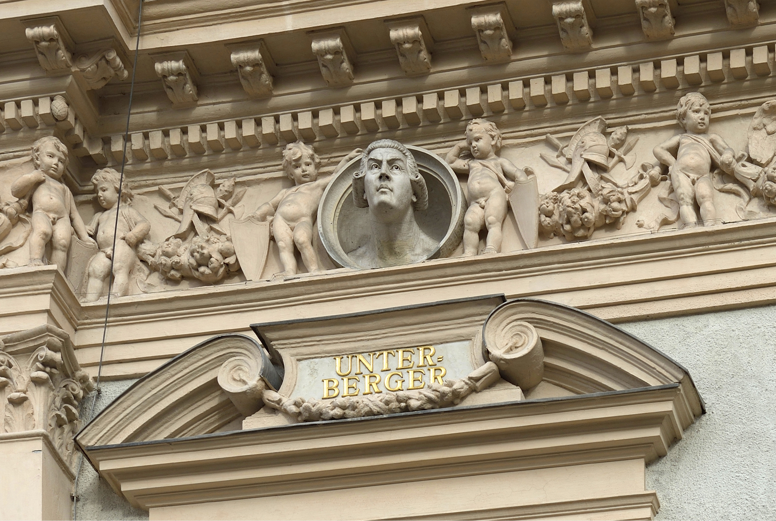 Portrait of Michelangelo Unterberger on the front of Museum Ferdinandeum in Innsbruck by Anton Spagnoli 1884 ca.